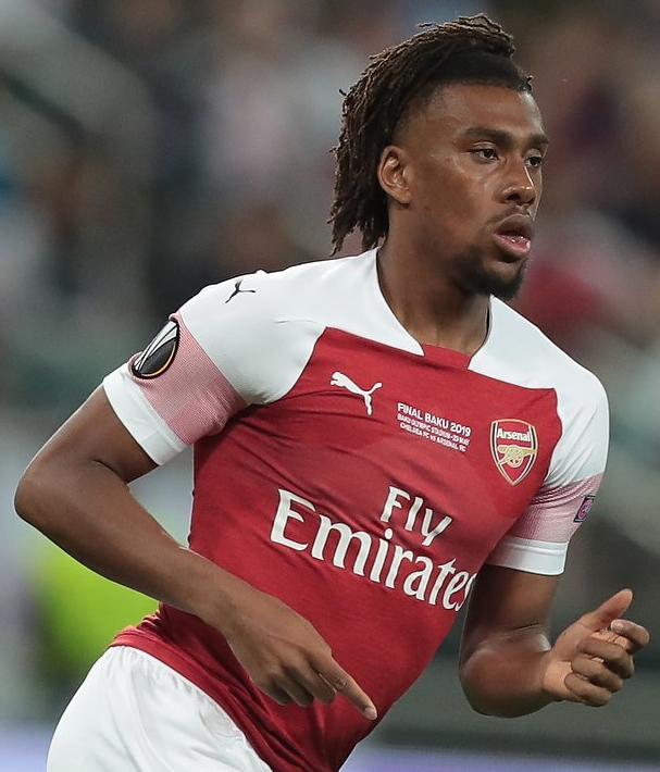 Nigerian footballer Alex Iwobi on 28 May 2019, during the UEFA Europea League final between Arsenal and Chelsea in Baku.